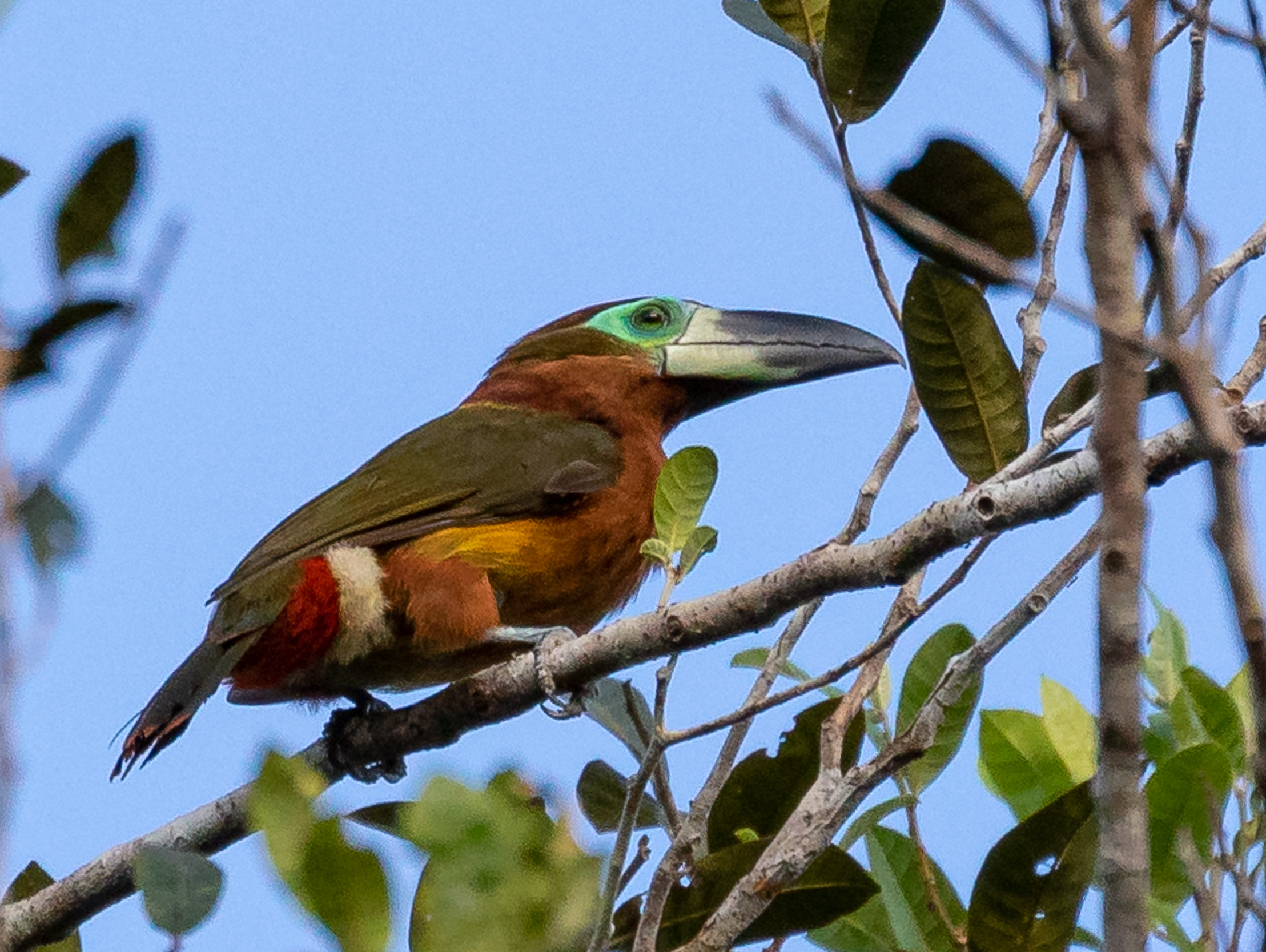 Golden-collared toucanet (female); Careiro, Amazonas, Brazil